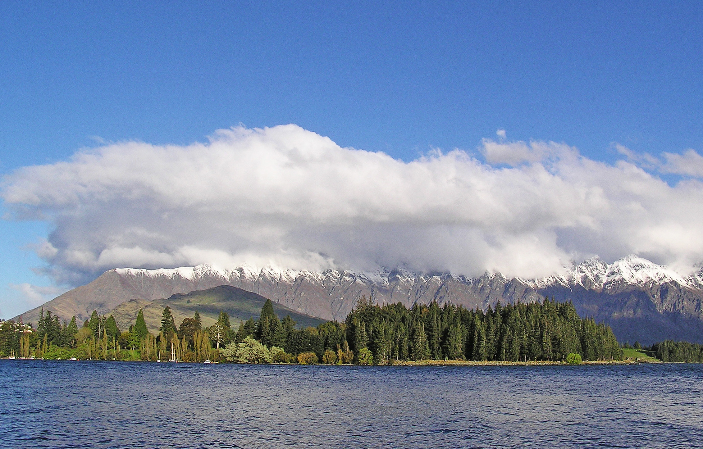 Lake Wakatipu & Remarkable Mountains Queenstown, New Zealand